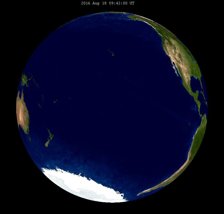 July 2016_lunar_eclipse view of earth The orientation of the earth as viewed from the center of the moon during greatest eclipse. thumb